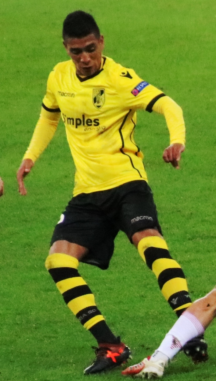 uefa euro league group stage group I 5th round